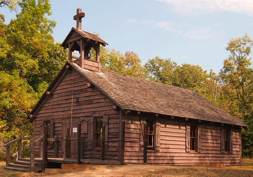 Lac qui Parle Mission, Chippewa County, Minnesota, USA. 1942 reconstruction by the Works Progress Administration of an 1835 mission.